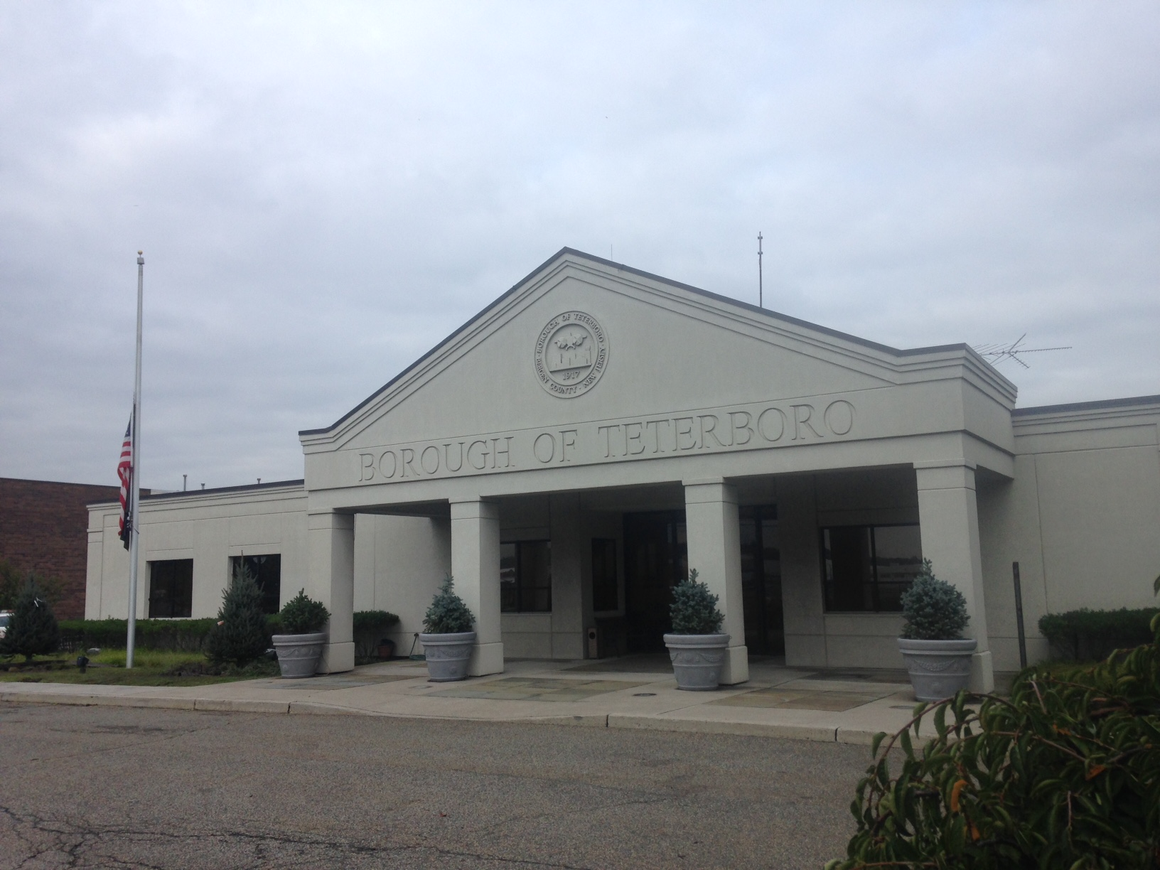 This is a photo of the the Teterboro Municipal Building in Teterboro, NJ, taken on September 11, 2018.